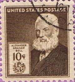 Stamp of Alexander Graham Bell Scott Catalog #893 - 10¢ Famous American Inventor Alexander Graham Bell - Oct. 28 - Designer: William A. Roach. Engravers: C. A. Brooks, W. O. Marks & J. T. Vail (vignette); J. T. Vail (lettering)